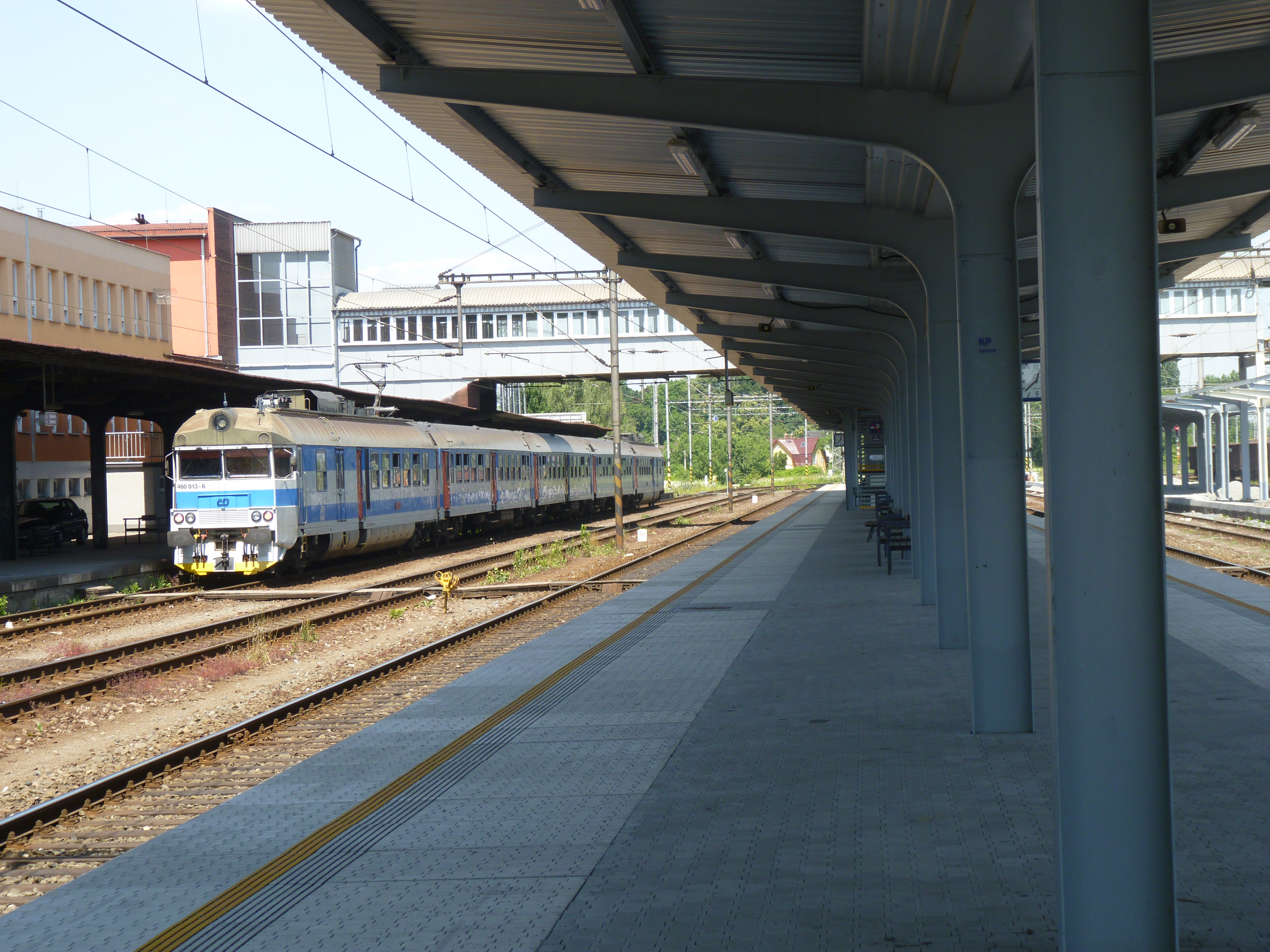 Ostrava-Kunčice train station. Moravian-Silesian Region, Czech Republic